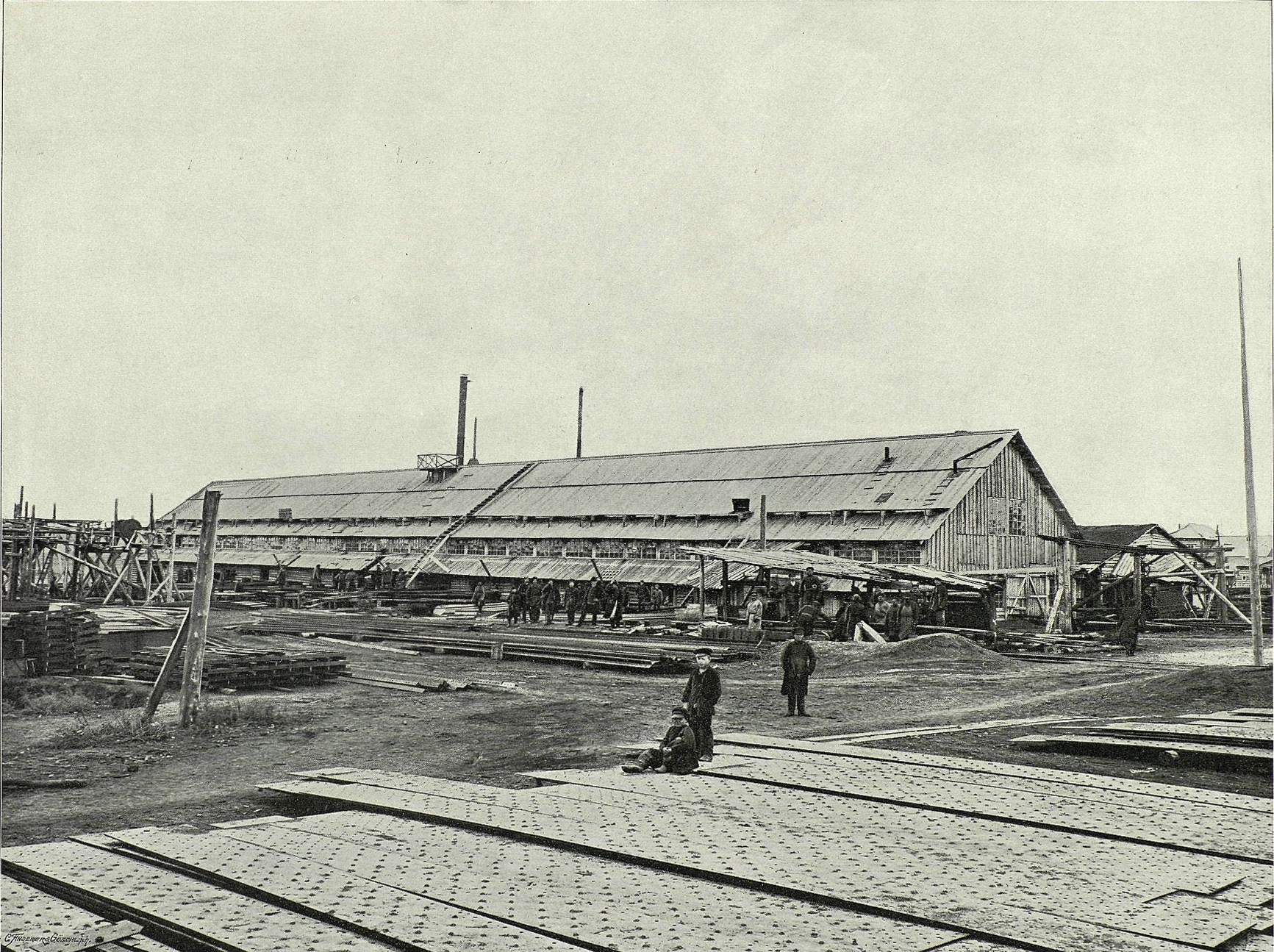 «Great Path - Views of Siberia and Great Siberian Railway» book, 1899